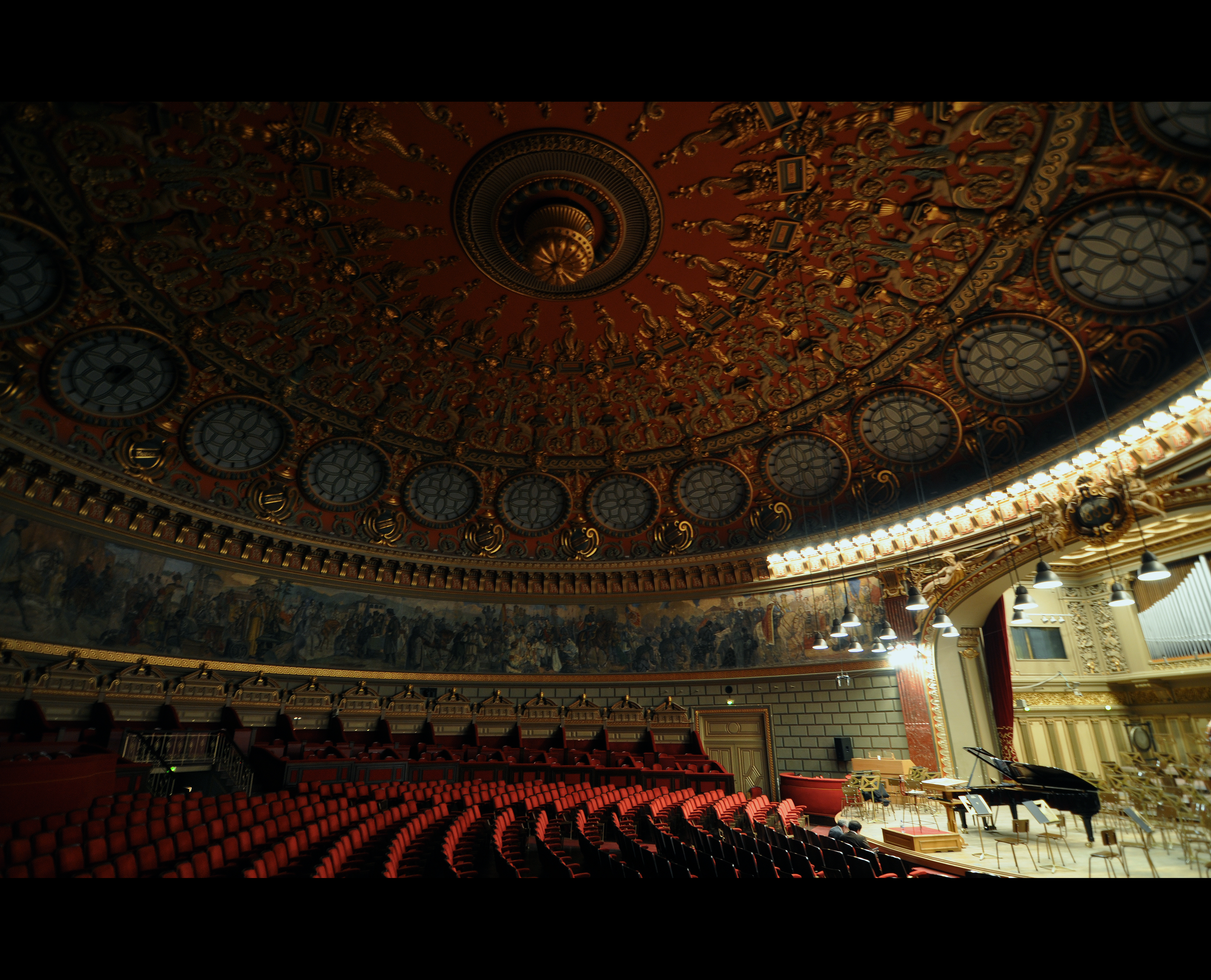 Ateneul Român Romanian Athenaeum inaugurated in 1888 architect Albert Galleron .ro/ro.html